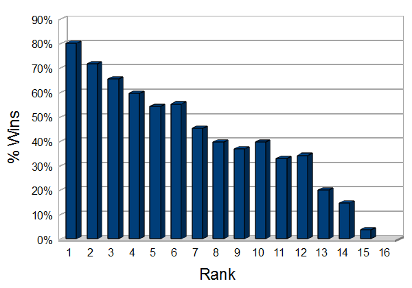 %Wins per rank in the NCAA final tournament till 2010